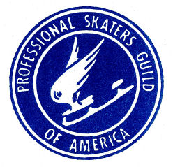 Professional Skaters Guild of America Logo, 1951